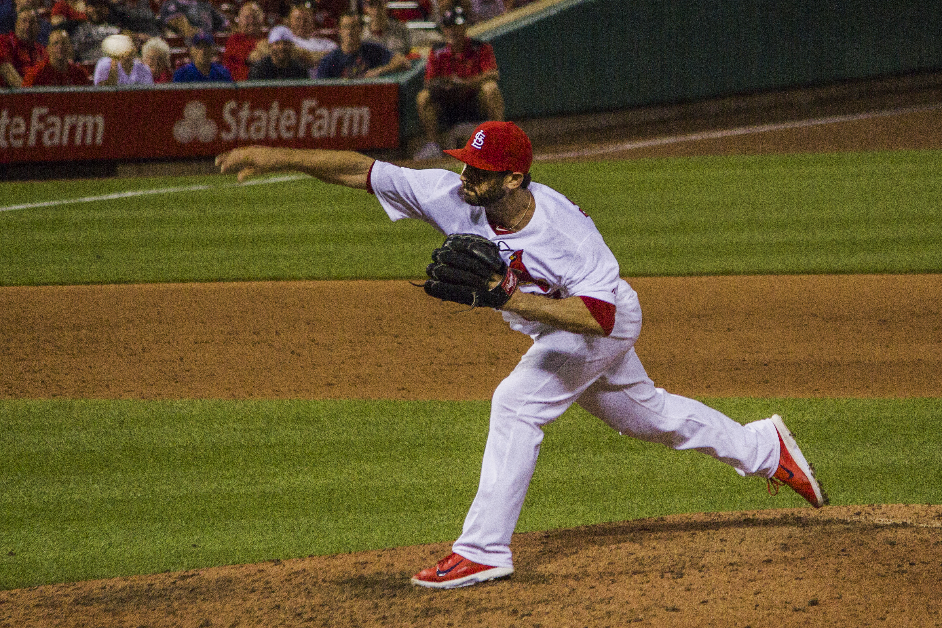 Dan Descalso Pitching for cardinals 2014